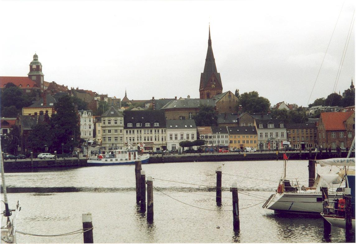 The Flensburg harbor in September 2004. In the background the Nicolai Church.